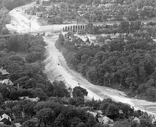 An aerial photograph of the Clifton Road Extension, which is now known as Mount Pleasant Road, under construction